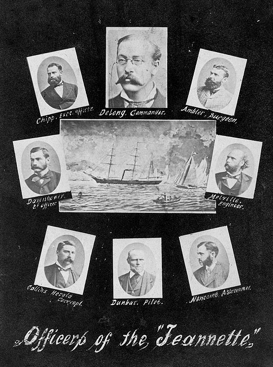 Photo #: NH 52007 USS Jeannette (1879-1881) Composite photograph of the ship, and the officers of her Arctic expedition. Those shown are (clockwise from top center): Lieutenant Commander George W. DeLong, USN, Commanding Officer; Passed Assistant Surgeon James M. Ambler, USN; Chief Engineer George W. Melville, USN; Raymond Lee Newcomb, Naturalist and Astronomer; William Dunbar, Pilot; Jerome J. Collins, Correspondent for the "New York Herald"; Lieutenant John W. Danenhower, USN, Second Officer; and Lieutenant Charles W. Chipp, USN, Executive Officer. Donation of Captain T.S. Wilkinson, USN, 1934. U.S. Naval Historical Center Photograph. Public Domain - To the best of our knowledge, all images referenced in the Online Library are in the Public Domain. They can be used by anyone, for any purpose, without obtaining our permission and without payment of usage fees. —